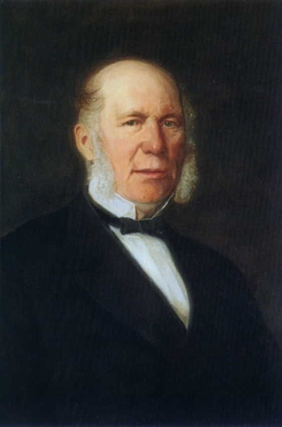 Portrait of the merchant and entrepeneur Hermann Henrich Meier (1809–1898) also known as H. H. Meier, founder of the shipping company Norddeutscher Lloyd (“North German Lloyd”) in Bremen.